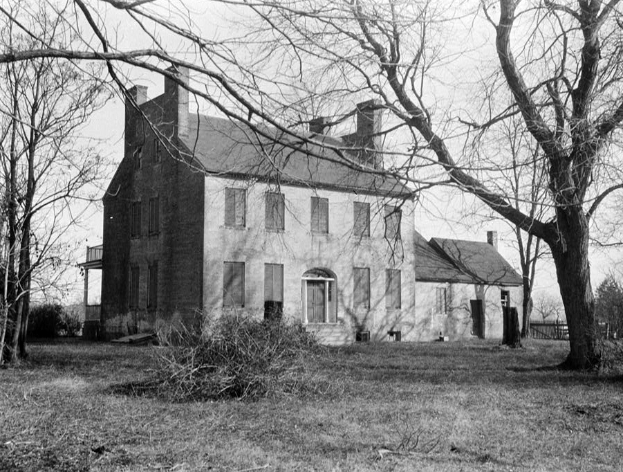 Waverly, Wayside, Maryland, USA. Cropped.